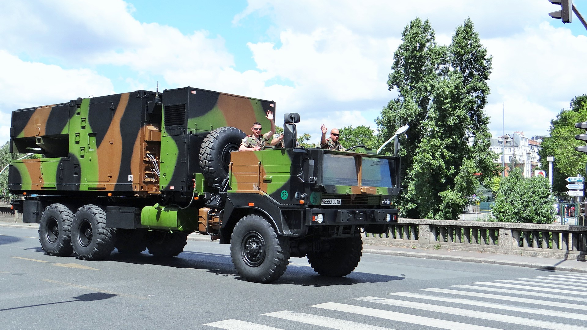 Radar COBRA after the military parade of the national holiday